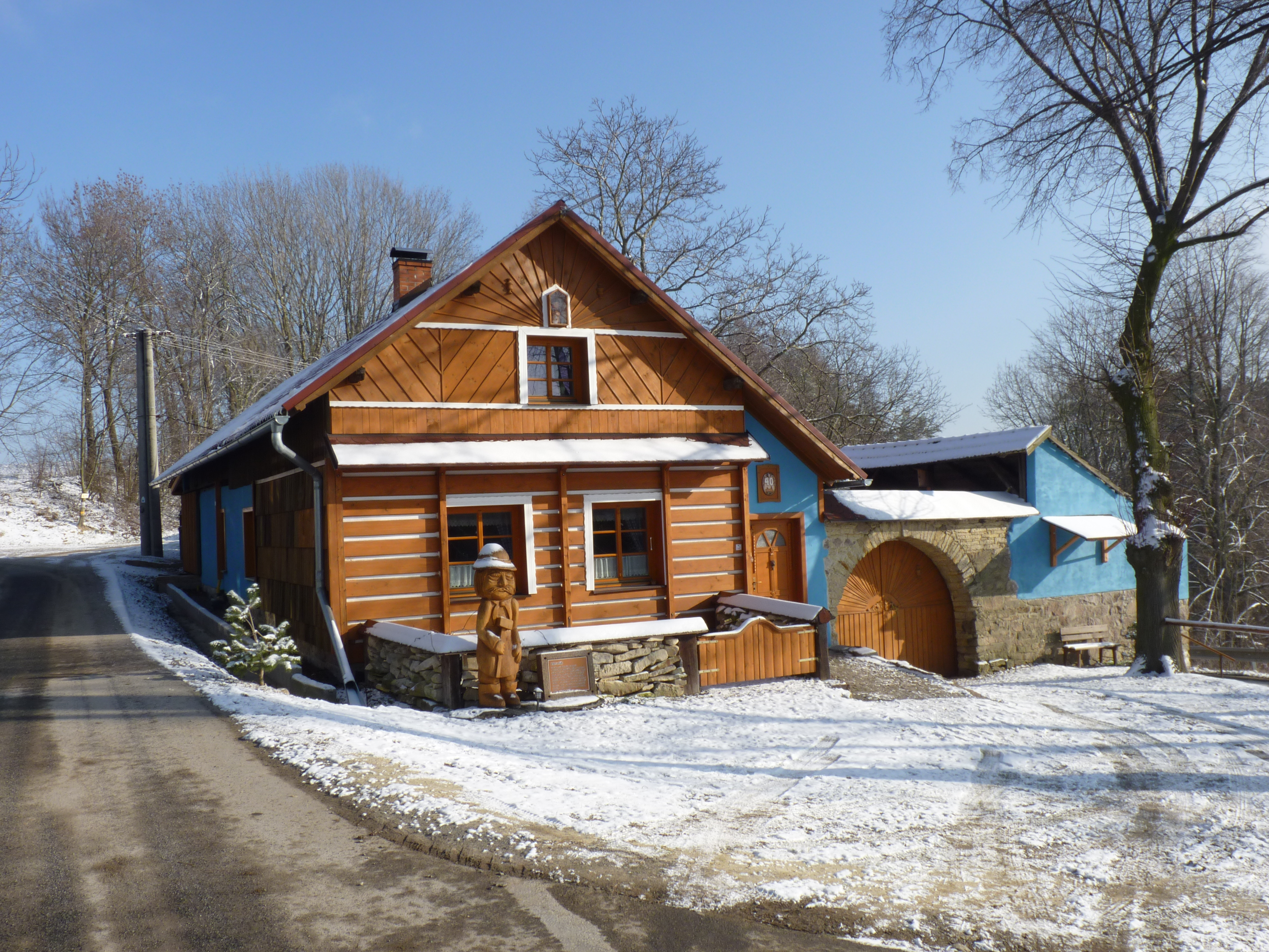 Nature reserve Maštale lies in Chrudim District, Svitavy Dictrict and Ústí nad Orlicí District, Czech Republic Project: Chráněná území